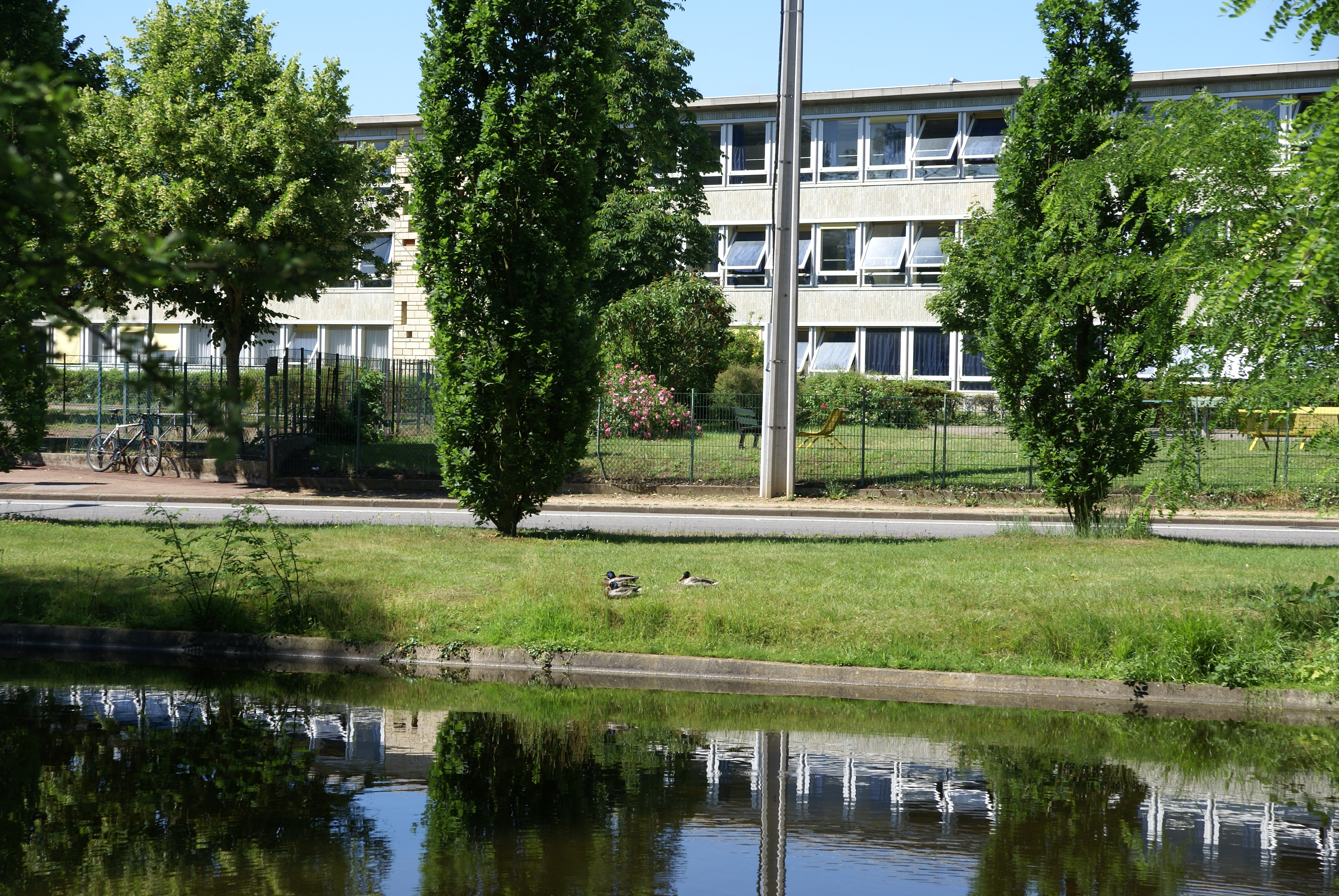 Lycée (secondary education) at Le Vésinet (Yvelines, France).